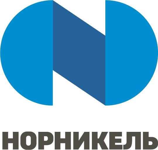 Nornikel Logo